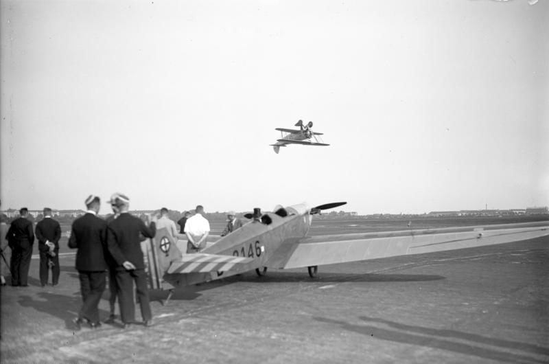 The aircraft in a foreground is probably Klemm L.25b, D-2146